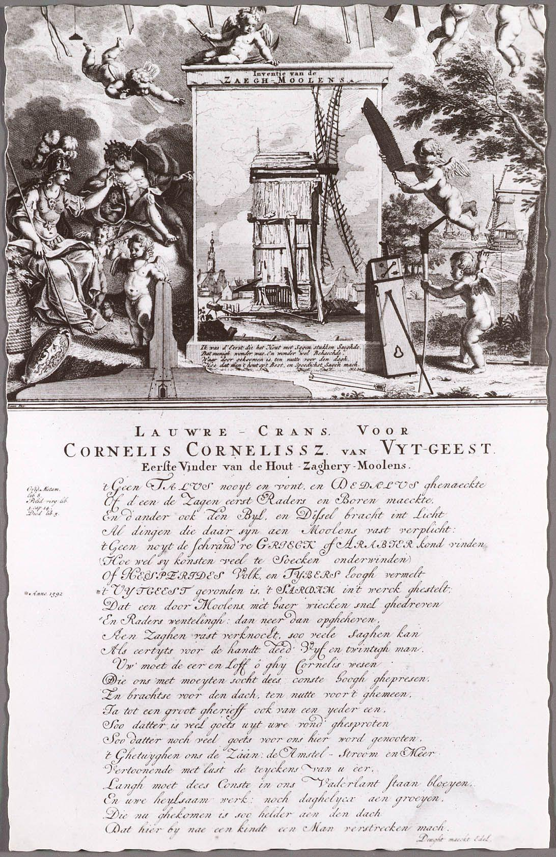 Allegory for the invention of the saw-mill, by Cornelis van Uitgeest